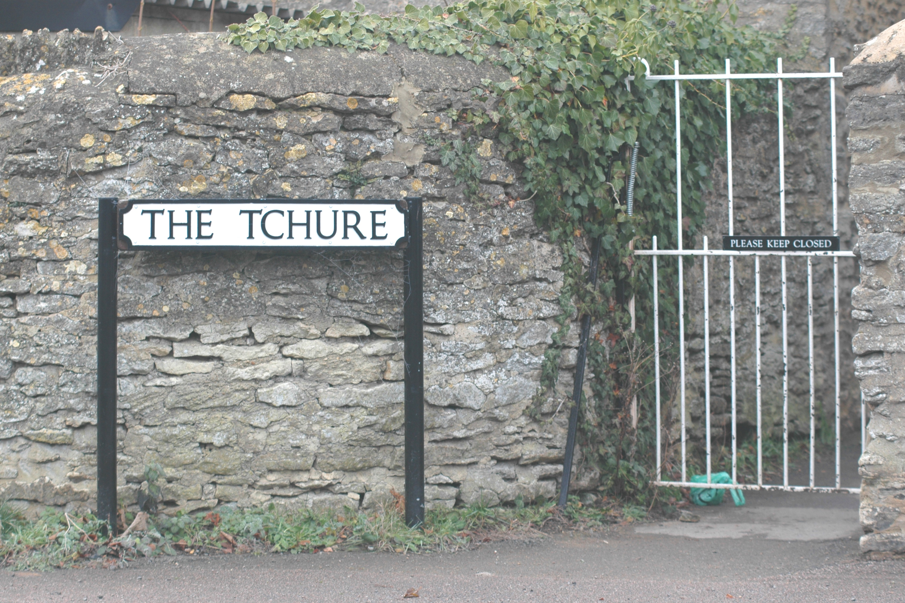 Street name sign for The Tchure alleyway, Charlton-on-Otmoor, Oxfordshire